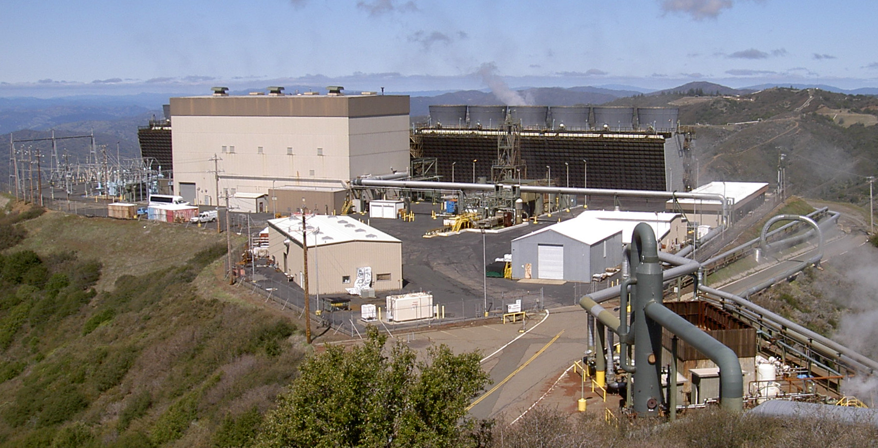 The Sonoma Calpine 3 geothermal power plant at The Geysers field in the Mayacamas Mountains of Somona County, Northern California. Photographed looking northwest from the nearby helipad.